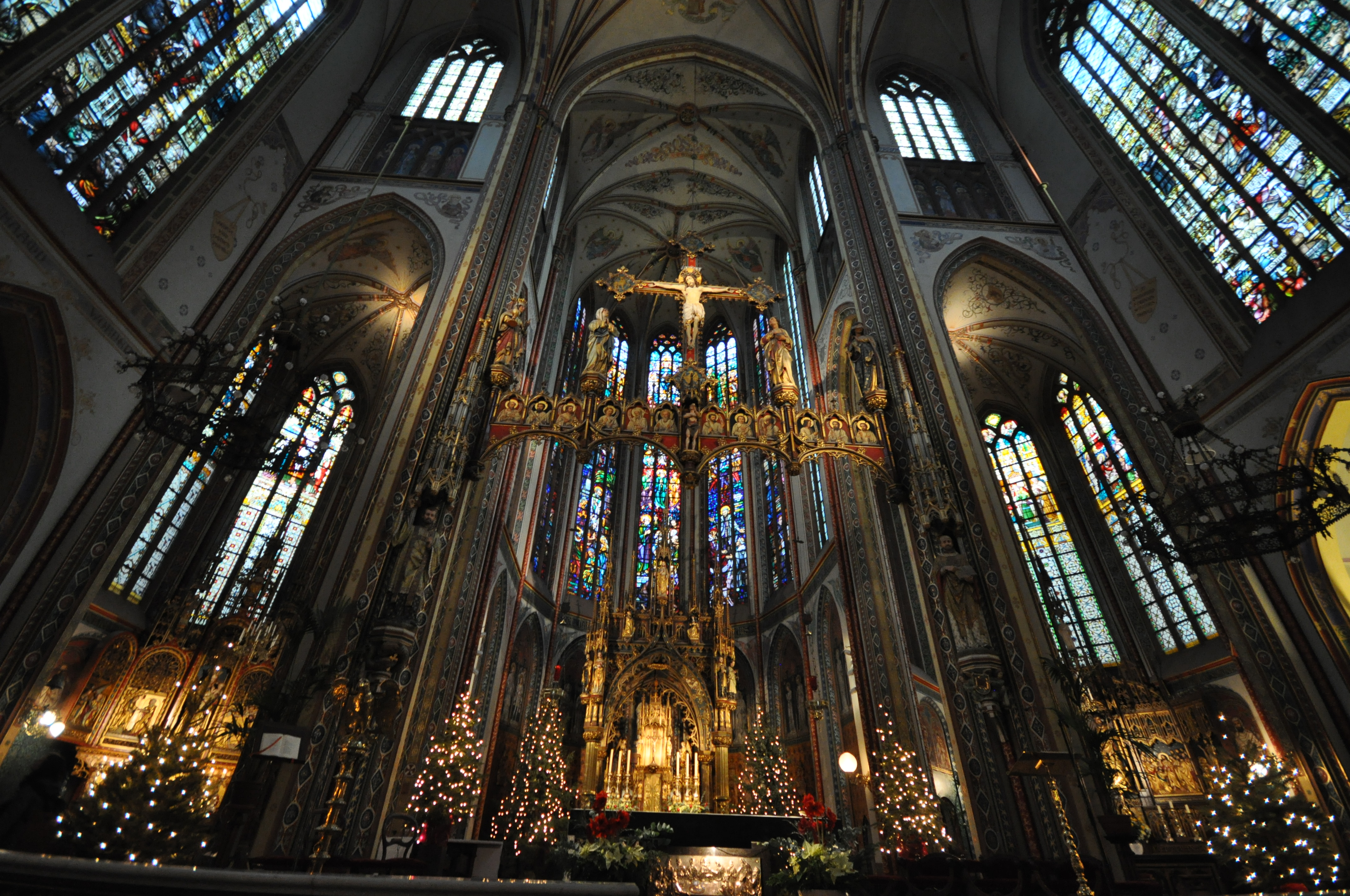 De Krijtberg is a Roman Catholic church in Amsterdam, located at the Singel. The church was designed by Alfred Tepe and was opened in 1883. The church is dedicated to St Francis Xavier and is one of the rectoraants within the Roman Catholic parish of St Nicholas, and is recognised by its two pointed towers. Since 1654 it has been a Jesuit church and services there are in a variety of styles